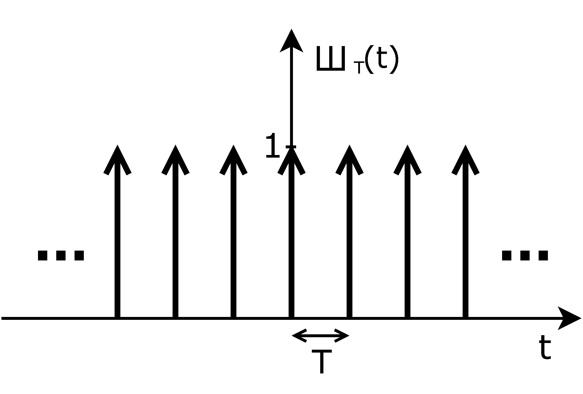 graph of a Dirac comb